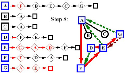 Dry run Depth-first search Algorithm in Graph, step 8